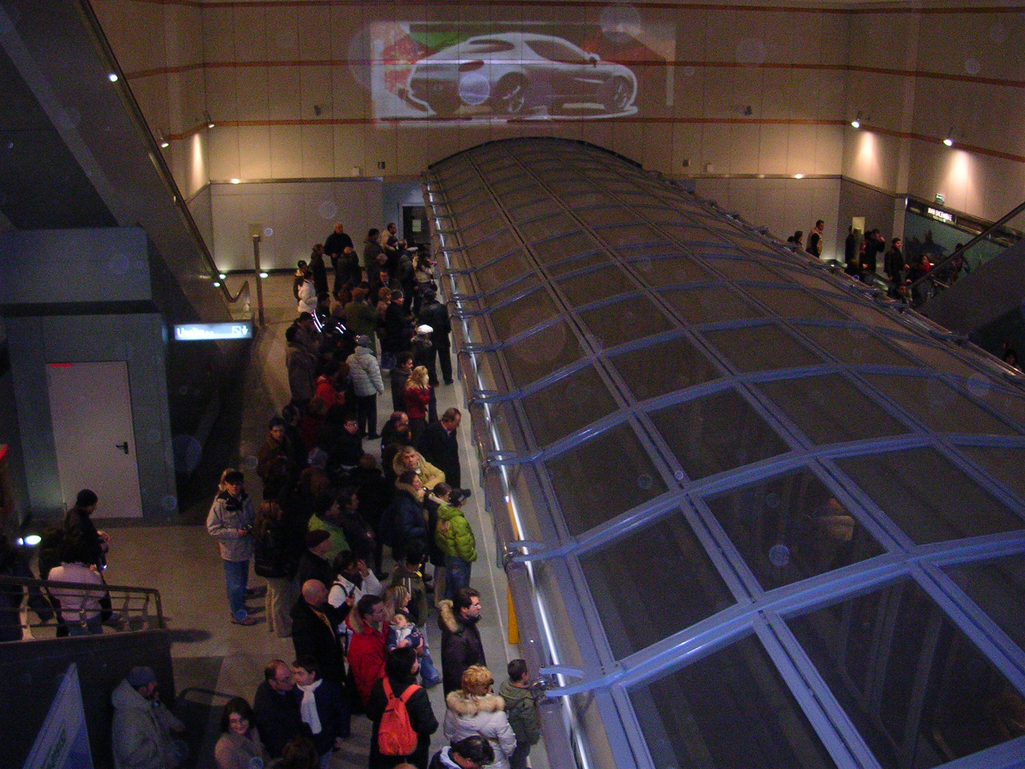 station XVIII Dicembre of the metro Turin, Italy